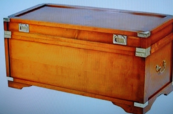 Trunk